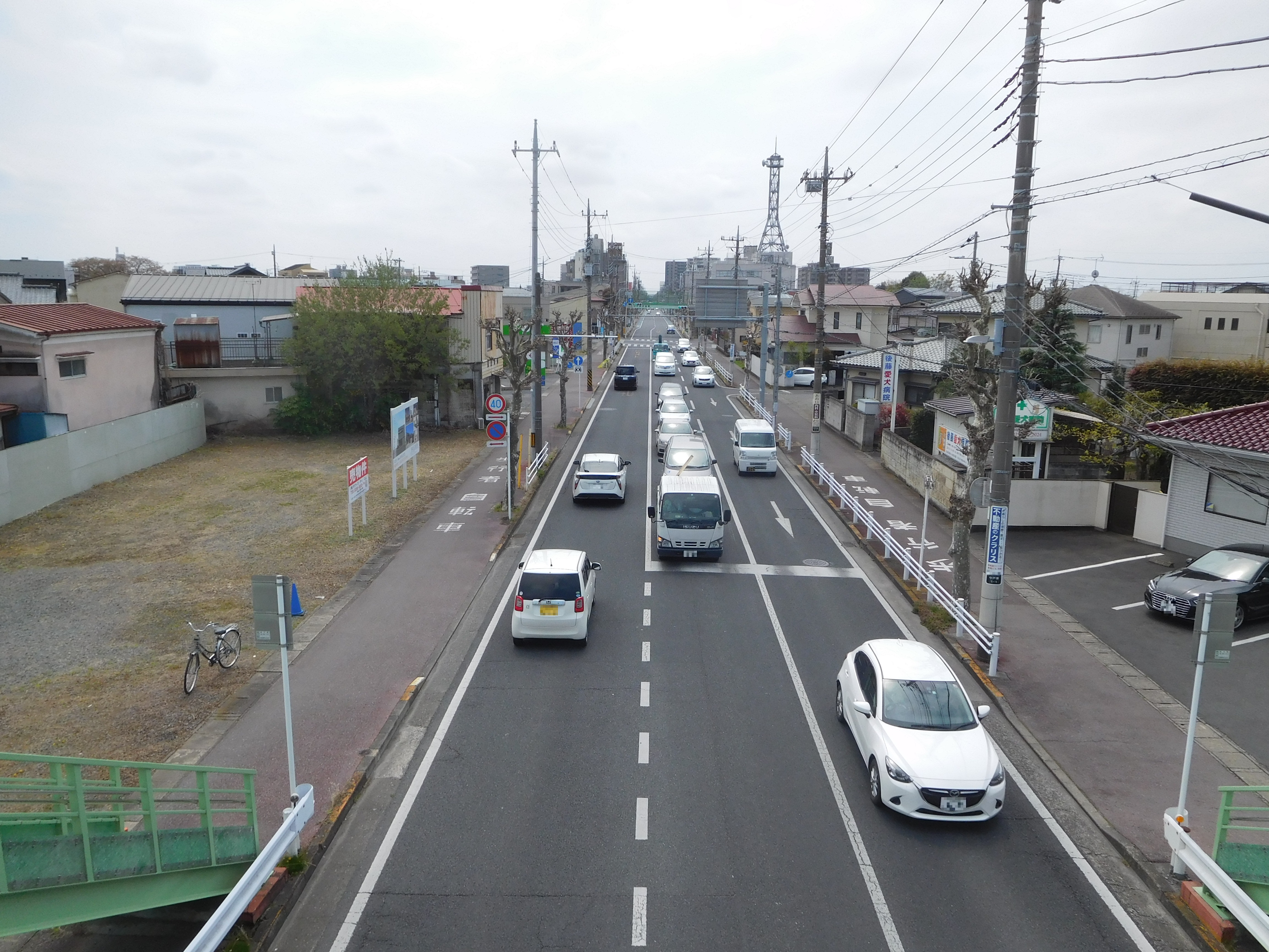 This is Sakura street view from Tomatsuri Ohashi Pedestrian Bridge (Matsubara 3 chome intersection) in Utsunomiya, Tochigi, Japan.